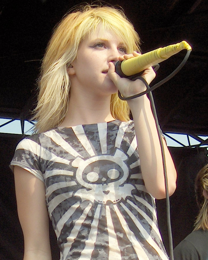 Hayley from Paramore.